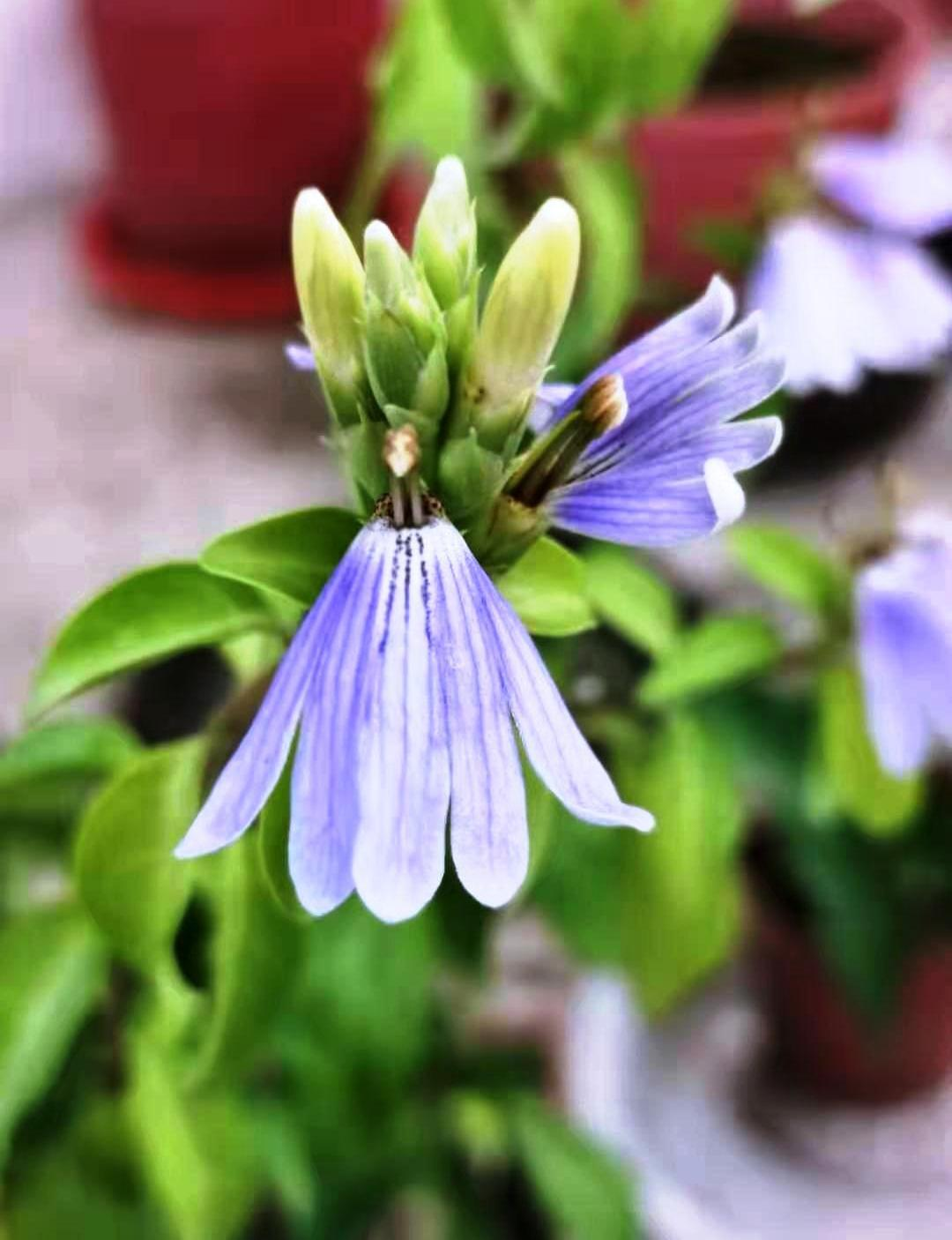 Sclerochiton harveyanus. Taichung, Taiwan.